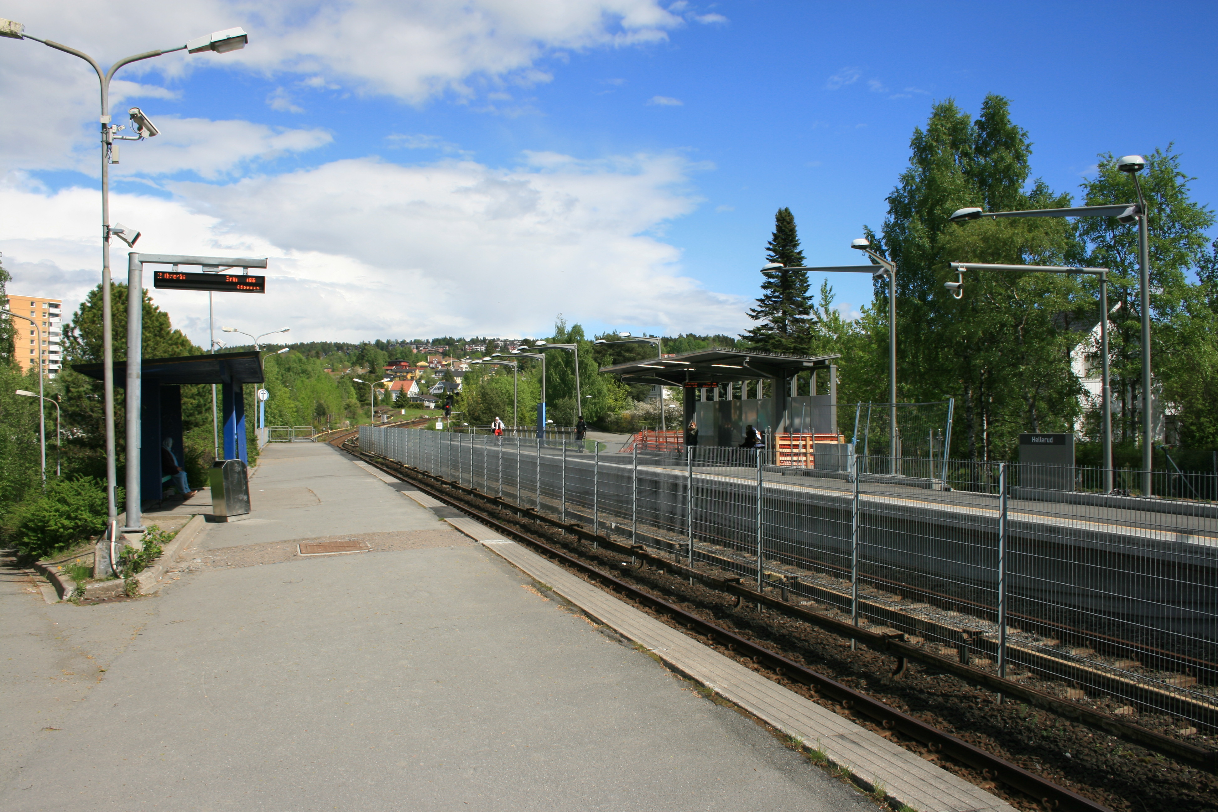 Hellerud is a station on the Oslo T-bane system.